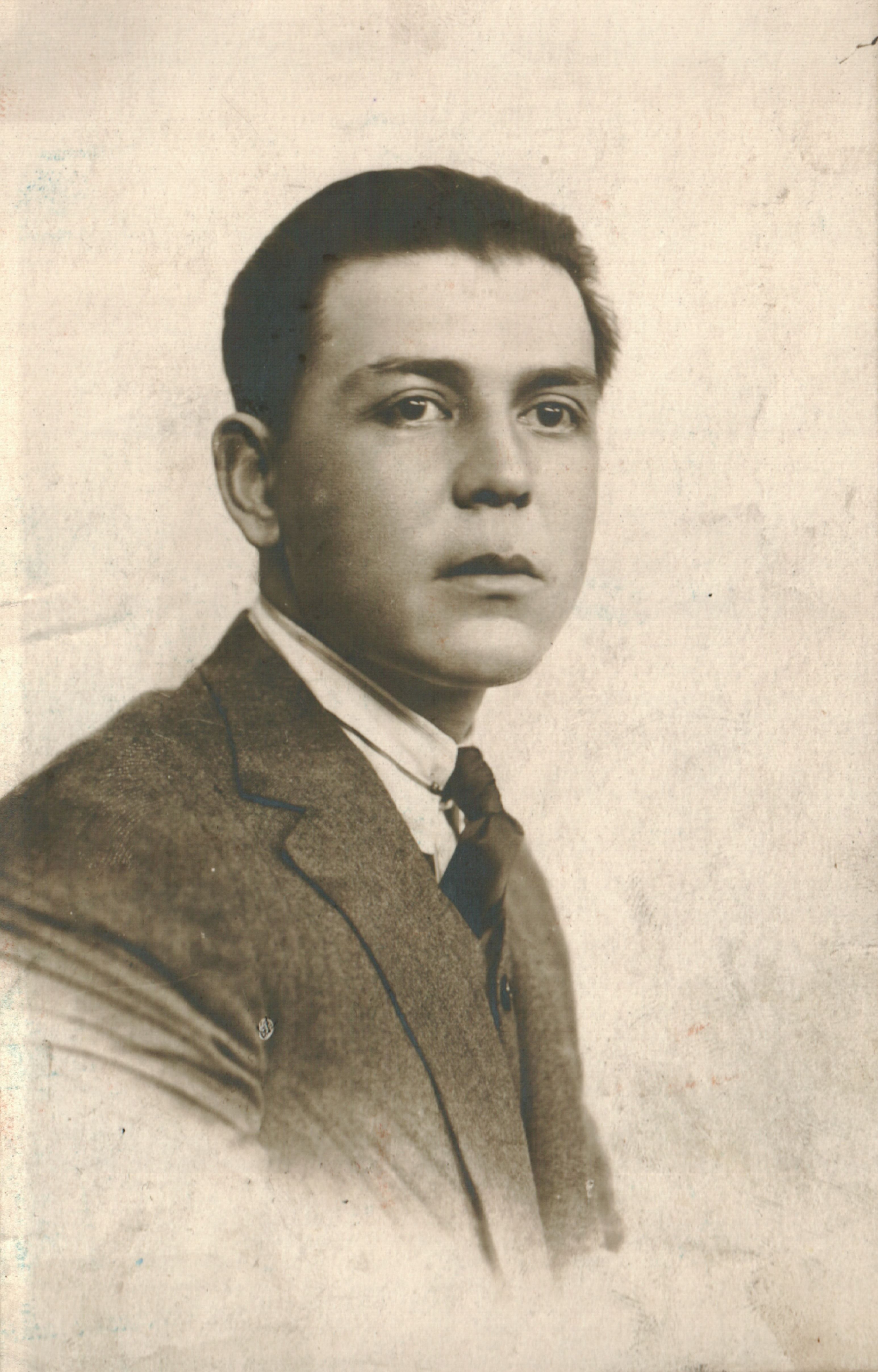 Misho Nedyalkov